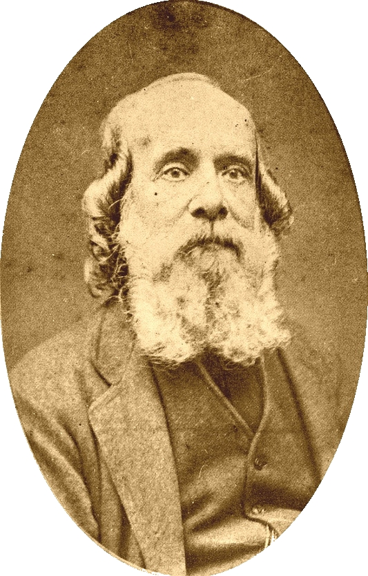 photo portrait of the painter Edward Charles Williams (1807-1881